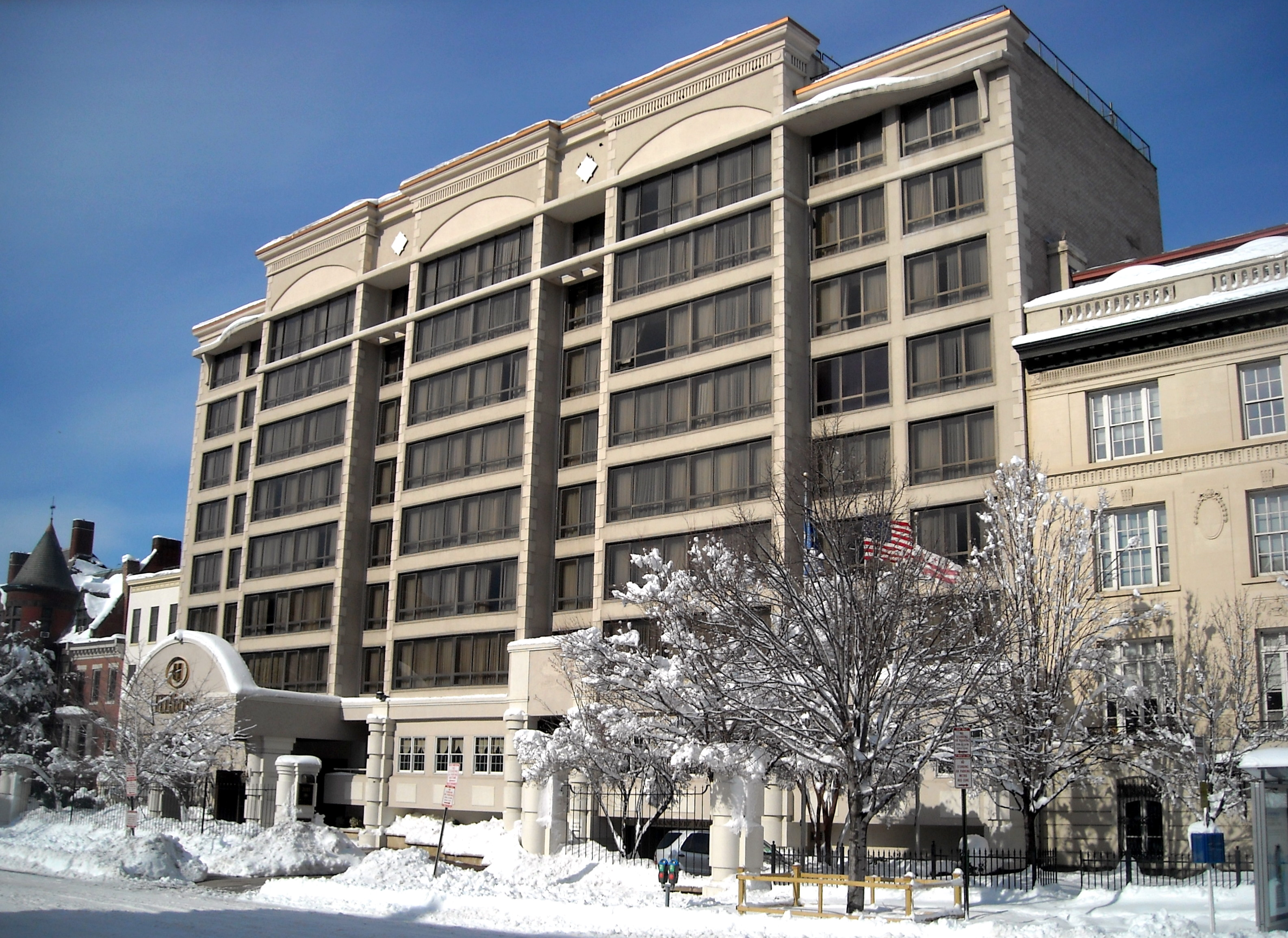 The Hilton Embassy Row Hotel (now known as the Embassy Row Hotel) located at 2015 Massachusetts Avenue NW in the Dupont Circle neighborhood of Washington, D.C., following the First North American blizzard of 2010. Built in 1970, the Modernist hotel was designed by the architectural firm of Fischer and Elmore.